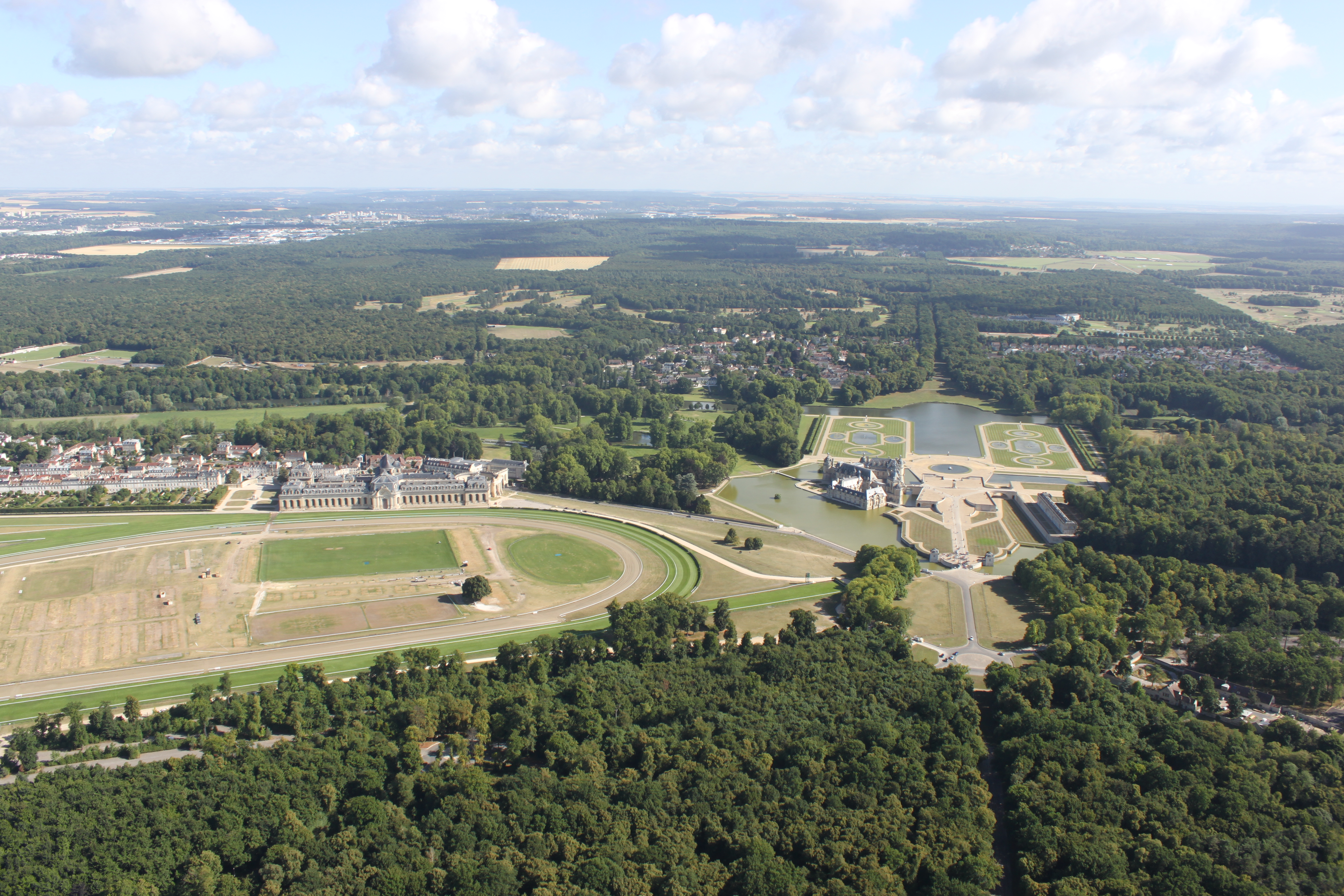 The town of Chantilly, France, with the Château de Chantilly and the Grandes Ecuries (Great Stabkes)